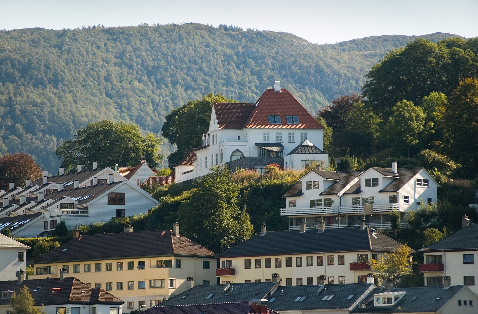 Henschien Insurance Services and the Greek consulate in Bergen, Norway.